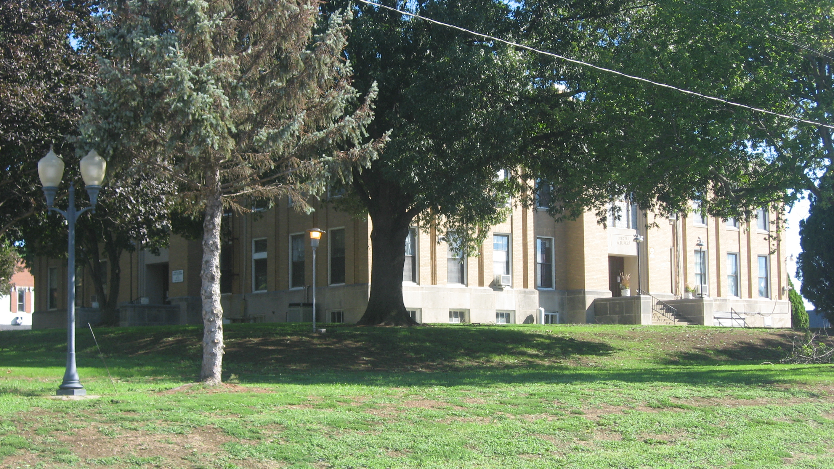 Northern side and front of the Hamilton County Courthouse, located along Illinois Route 142 on Courthouse Square in McLeansboro, Illinois, United States. It was built in 1938.